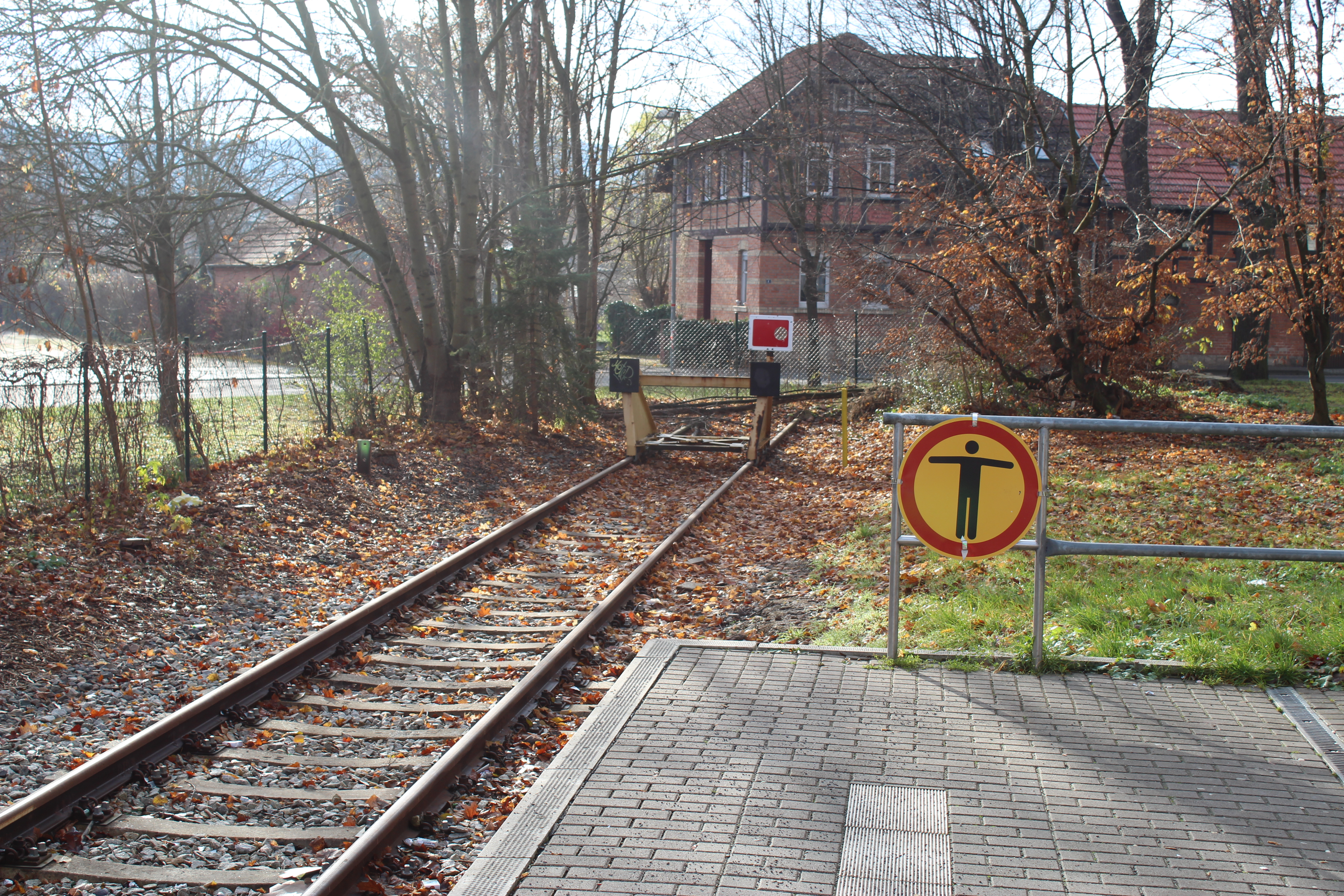 train station Kranichfeld, end of the rail